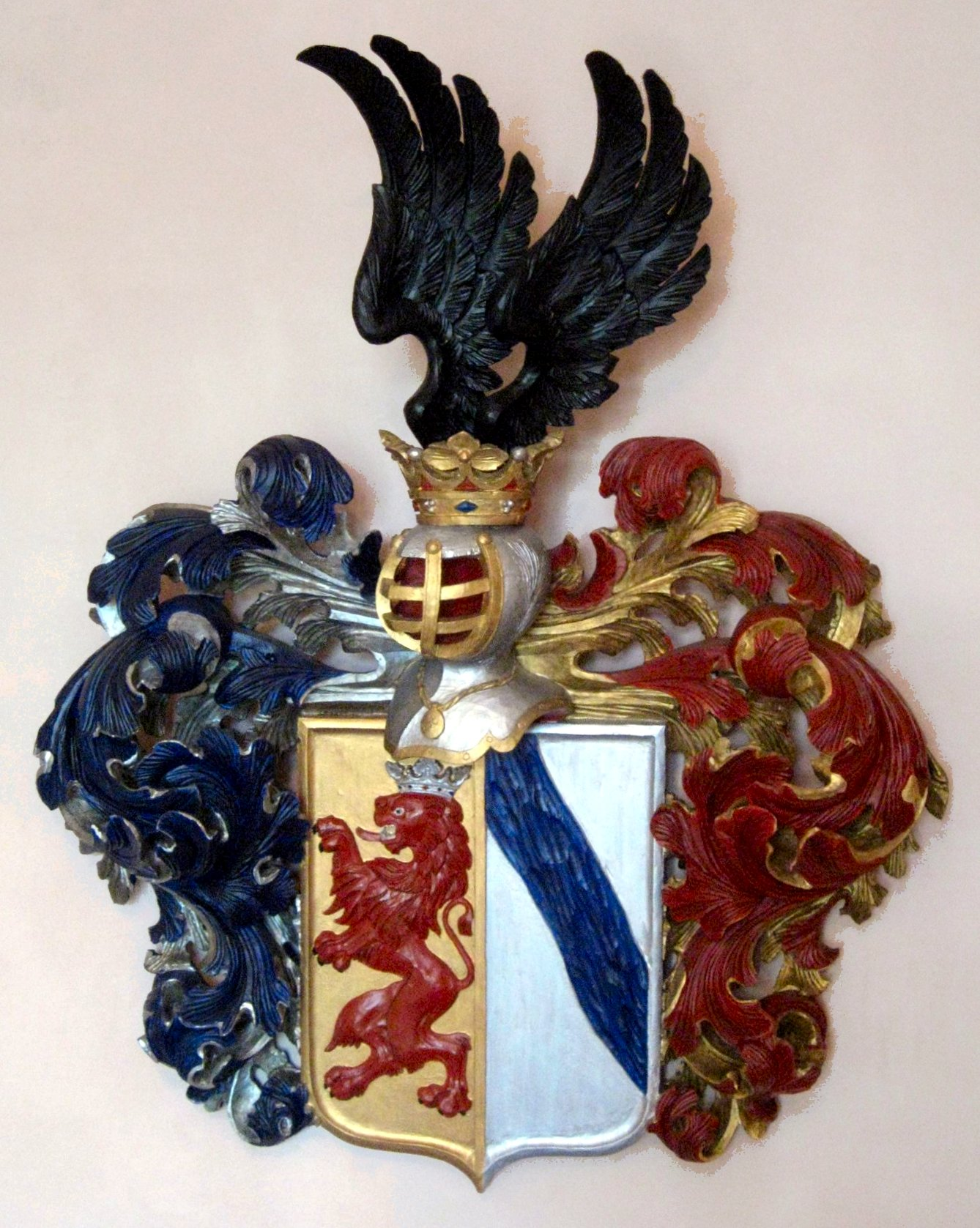 Toll family heraldry, photographed in Kukruse polar manor in Kukruse, Kohtla, Estonia. The description underneath says: --- "In 1544, Lucas von Toll, who has from Wittenberg, was admitted to the university of the same same. In 1560, he served as a secretary of the Kuressaare administrative unit and he had a manor in Saaremaa as well. The common forefather of the Tolls is the freeman Hans Toll, who in 1574 owned about 10 hectares of land. He is also considered the descendant of Suur Tõll, a mythical hero from Saaremaa. In 1711, the Tolls became officially registered among the nobility on Saaremaa, followed by Estonia in 1746 and Livonia in 1747. By that time they had their family coat of arms: a shild with a lion on the right side and a blue wavy stripe on the left. /From Tiit Saar's book, 'Heraldry of Estonian manor families'/ The original copy is housed at the Dome Church in Tallinn." --- (Note: The lion and the stripe are in different order on the coat of arms than what is the description.)